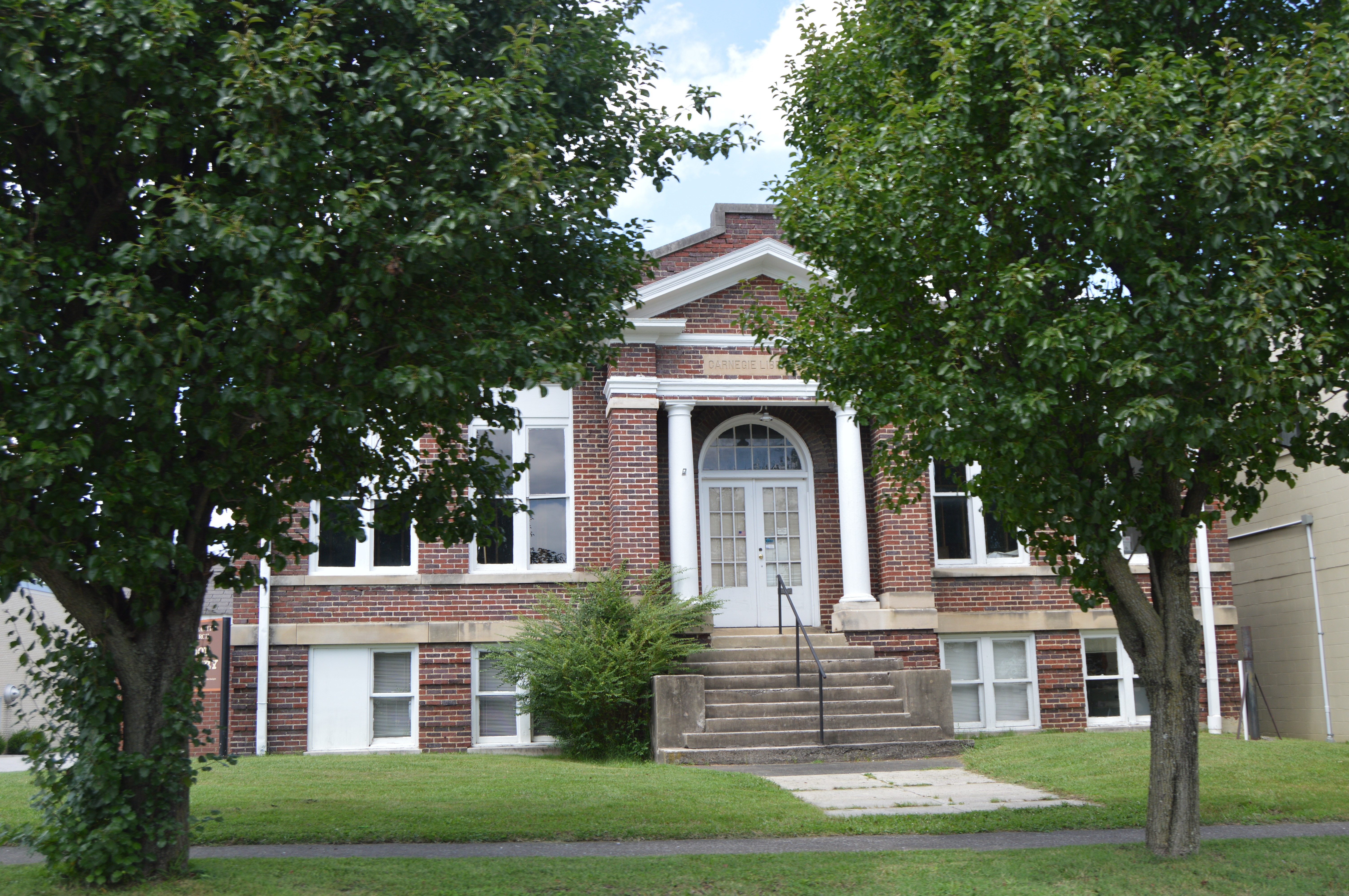 Front of the Corbin Carnegie Library, located at 402 E. Roy Kidd Avenue (Kentucky Route 2377) in Corbin, Kentucky, United States. Built in 1916, it is listed on the National Register of Historic Places.